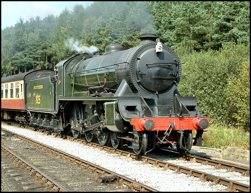 No. 825 Southern Railway Class S15 approaching Levisham Station, North Yorks Moors Railway * Richard Maunsell?s Southern Railway S15 locomotives, intruduced to service around 1920, were a regular sight on London and South Western Railway. They spent most of their lives on parcels and freight trains on the main lines from London to Southampton and the West Country. The North Yorkshire Moors Railway provides some 18 miles of preserved steam railway running through the spectacular scenery of the North Yorkshire Moors, UK. The line is owned by the North Yorkshire Historical Railway Trust who have run the line as a living museum since 1974.